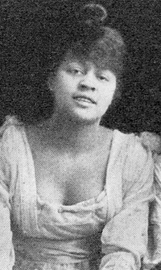 A young African-American woman with her hair in a top bun; her dress is light-colored with a low square neck.